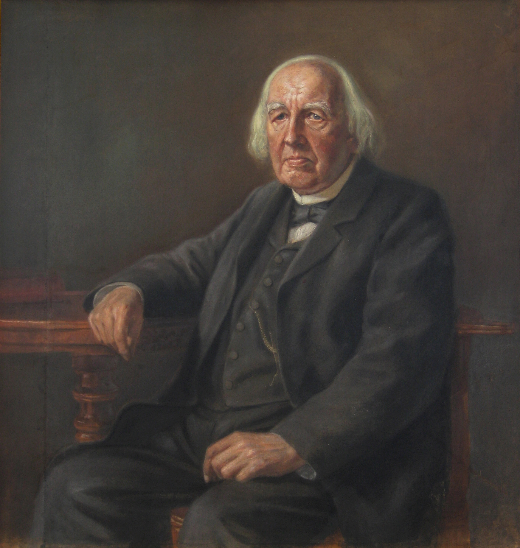 Karl Weierstraß, painting by Conrad Fehr (1854-1933)